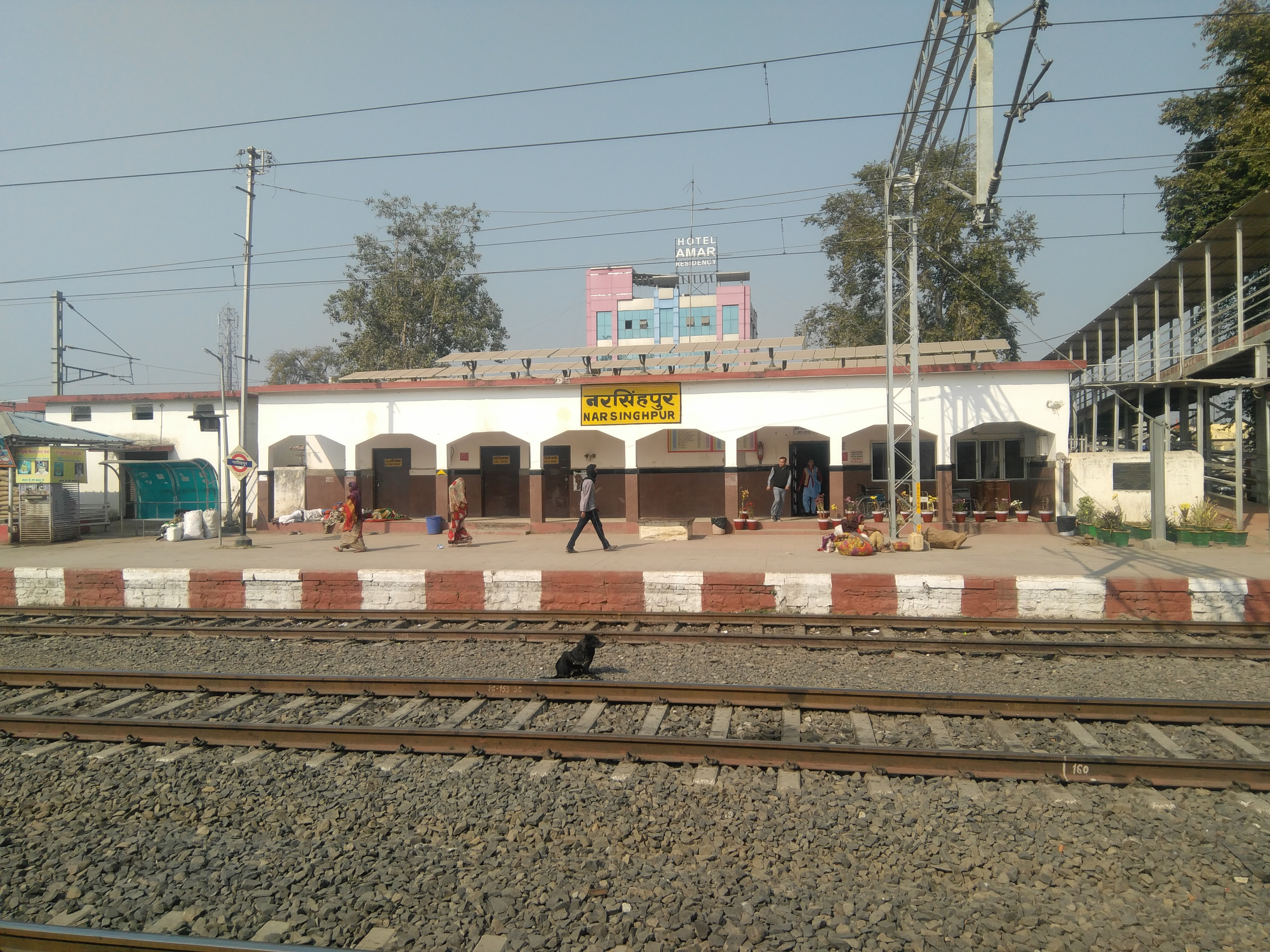 Narsinghpur railway station, WCR region Indian Railway